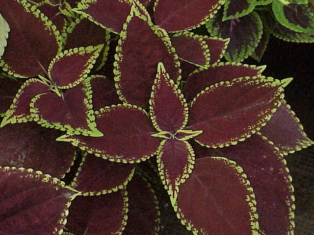 Species: Coleus sp. Family: Lamiaceae Image No. 7